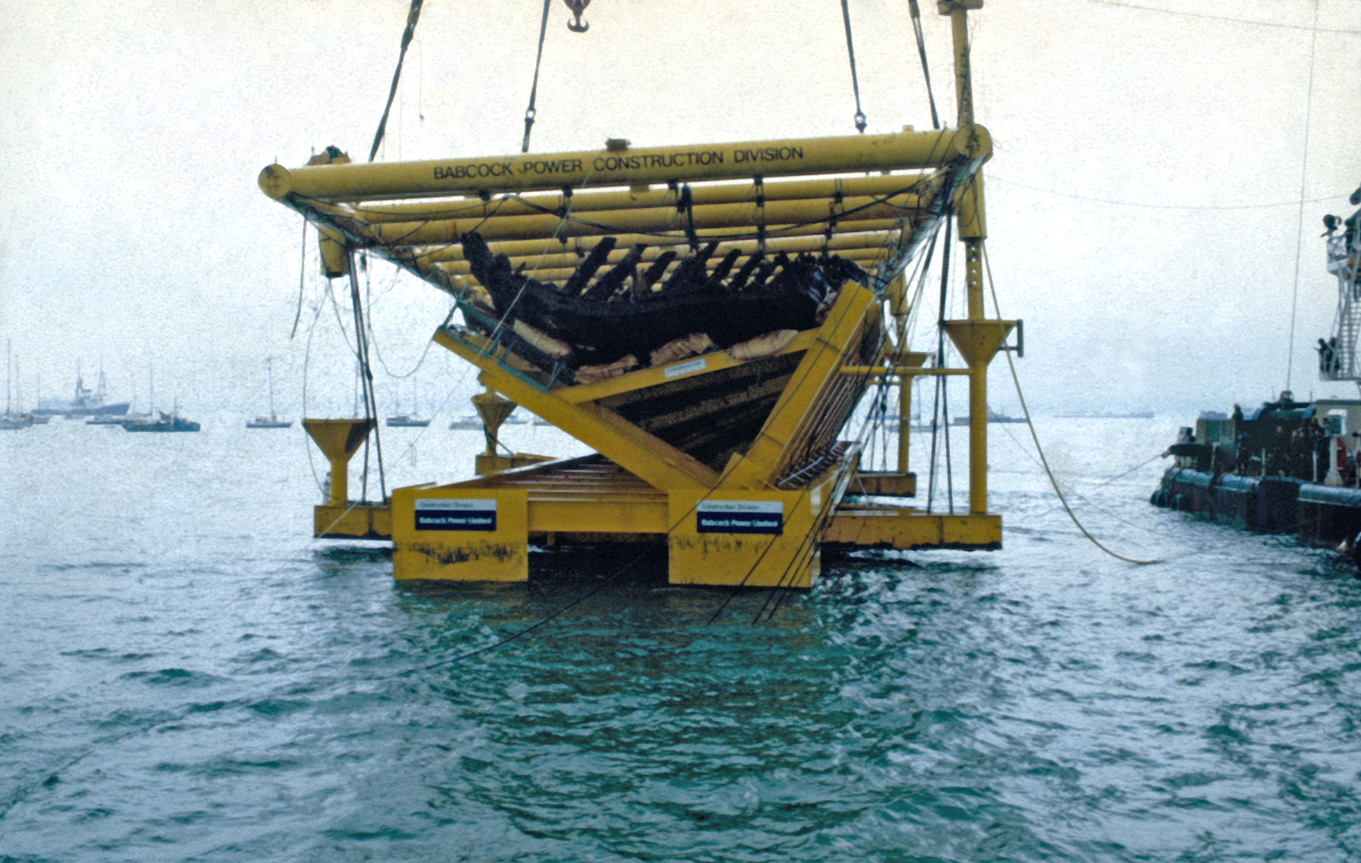 The final stages of the salvage of the 16th century carrack Mary Rose on October 11 1982.